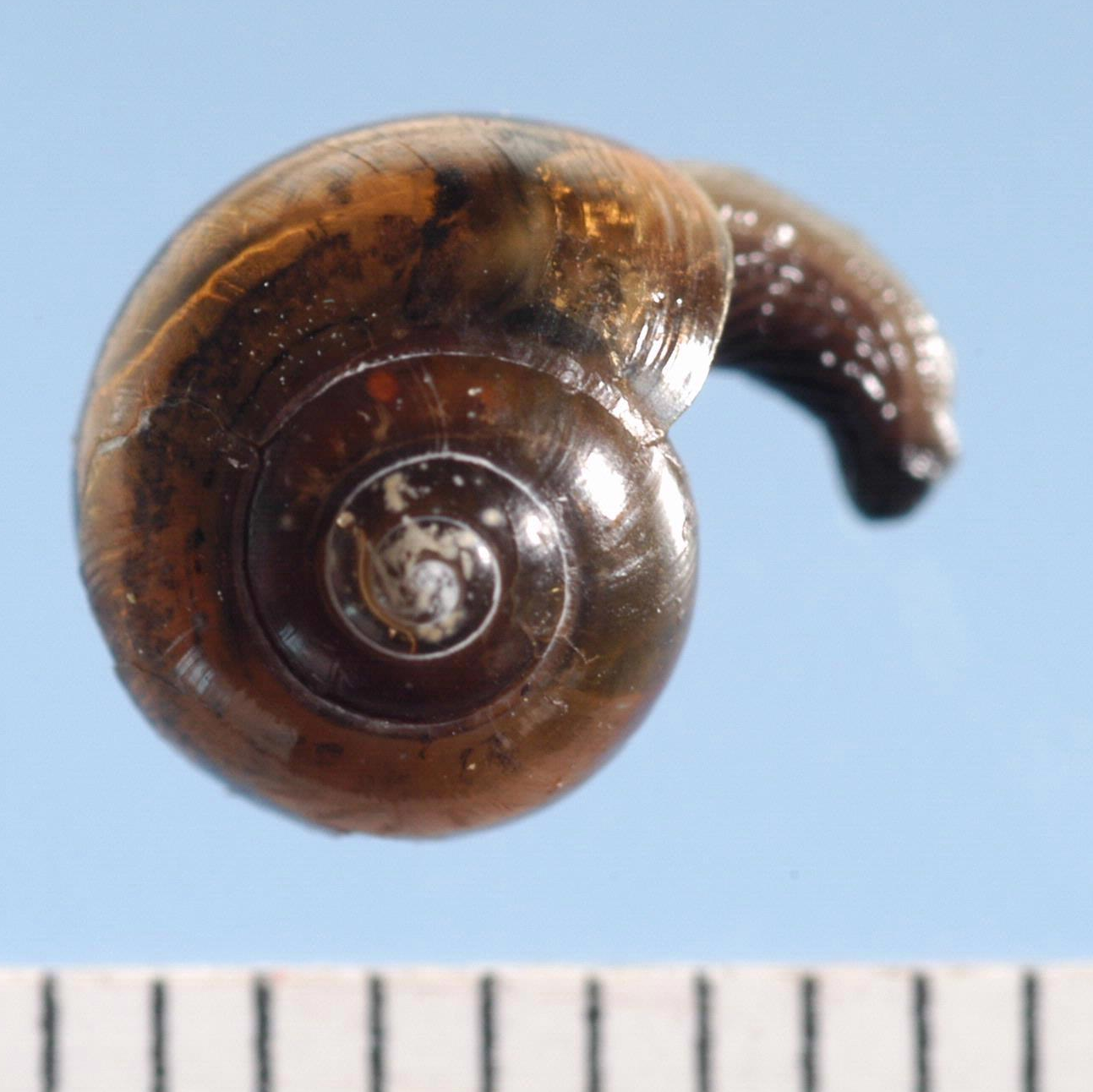 Photo of preserved specimen of Ovachlamys fulgens. The scale bar is in mm.